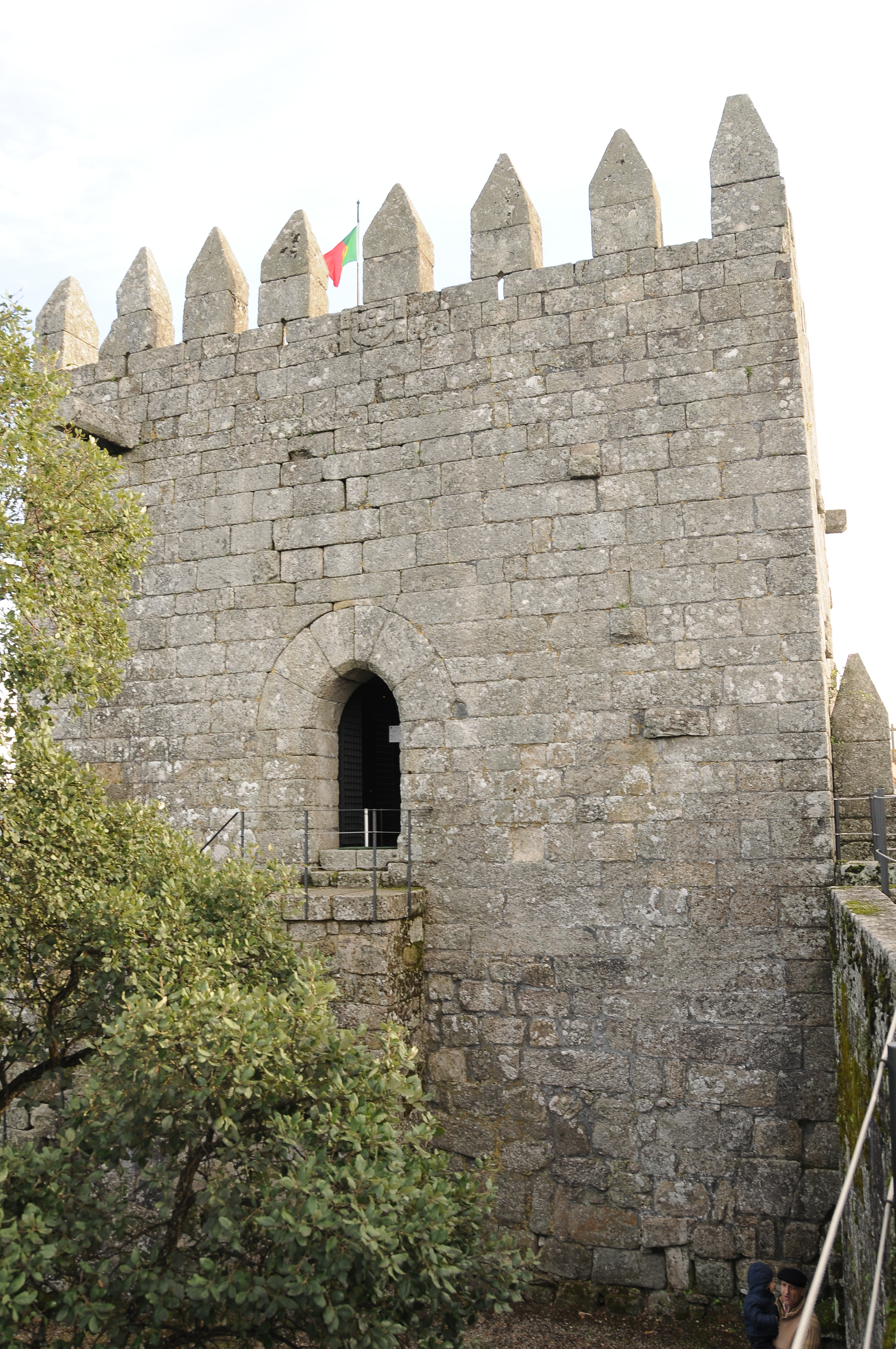 Lanhoso Castle in Póvoa de Lanhoso, Portugal.